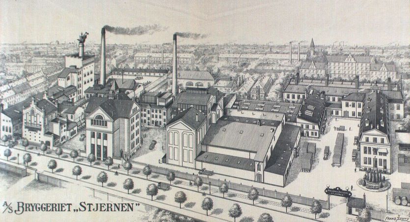 Bryggeriet Stjernen at Dronning Olgas Vej in Frederiksberg, Copenhagen, Denmark